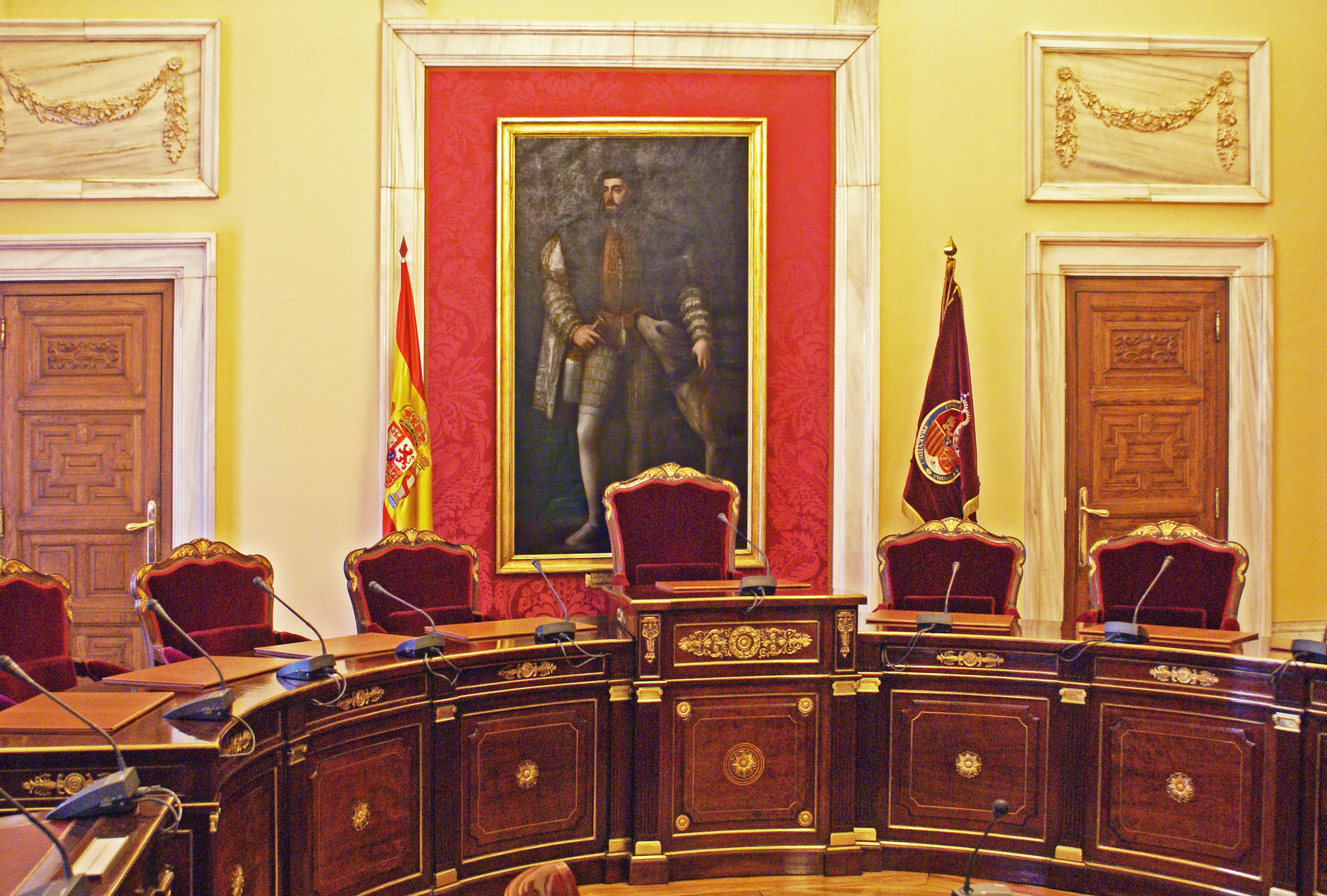 Meeting room of the Council of State of Spain.